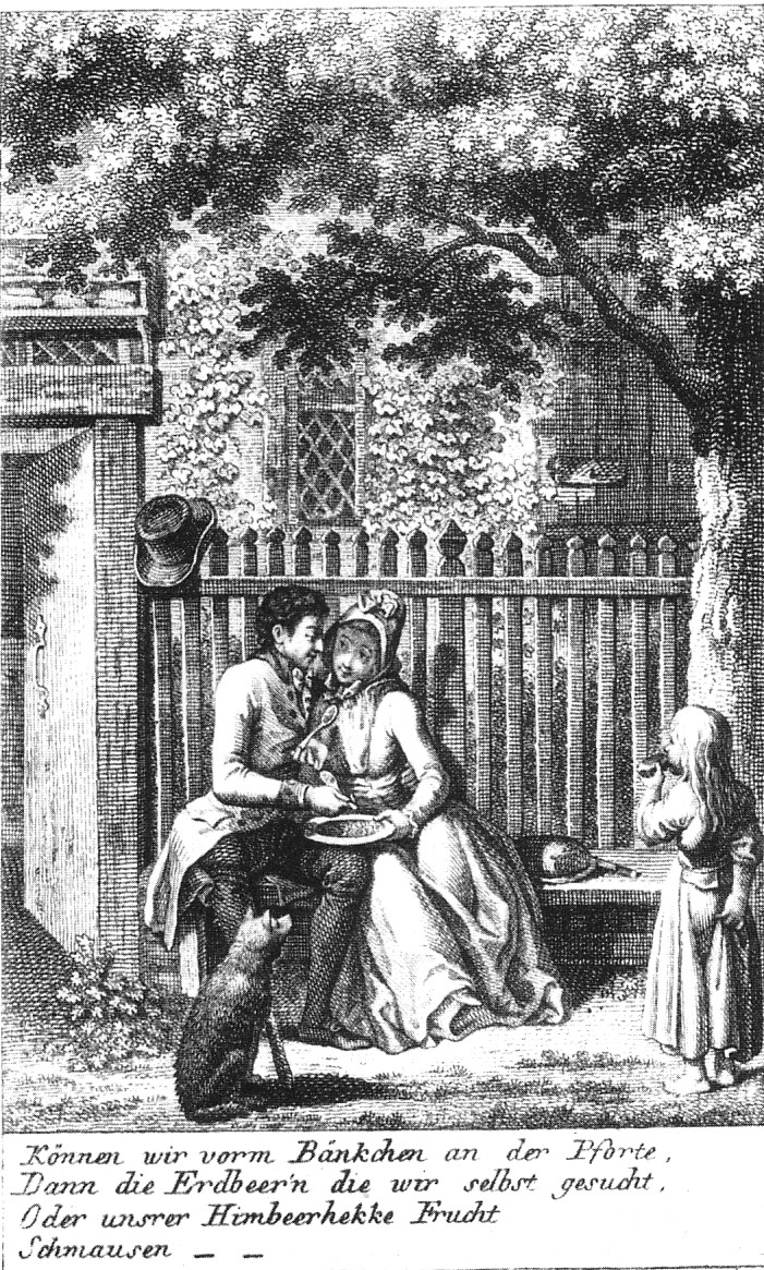 Daniel Chodowiecki: Illustration for poems of "Schmidt von Werneuchen" (1764-1838), a prussian pastor and poet.